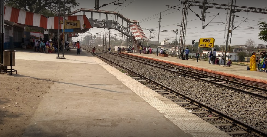 Japlastation